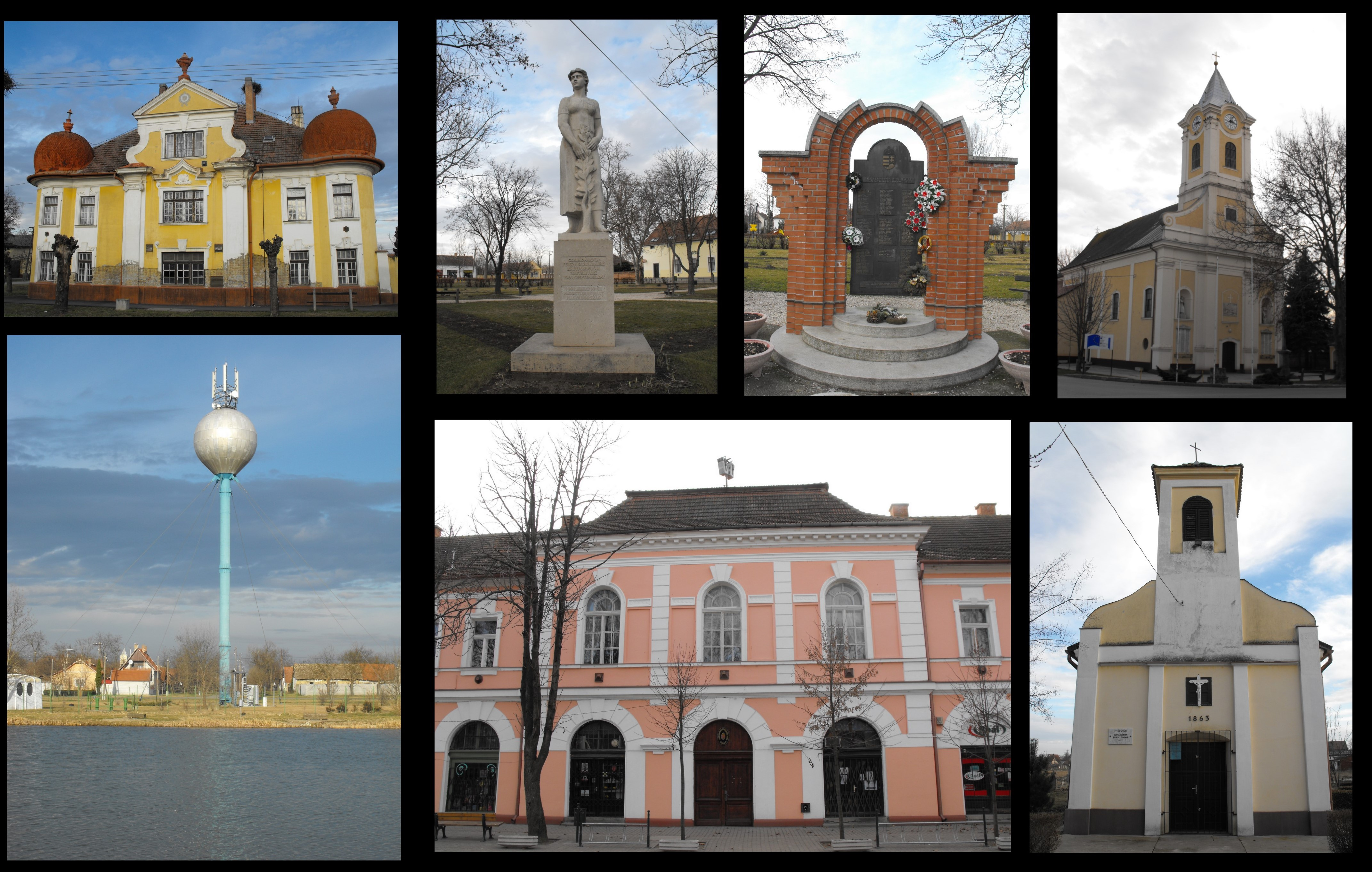 Montage with images of Csanádpalota, town in Southern Great Plain, Hungary. All of the photos appearing in the montage are my own works.